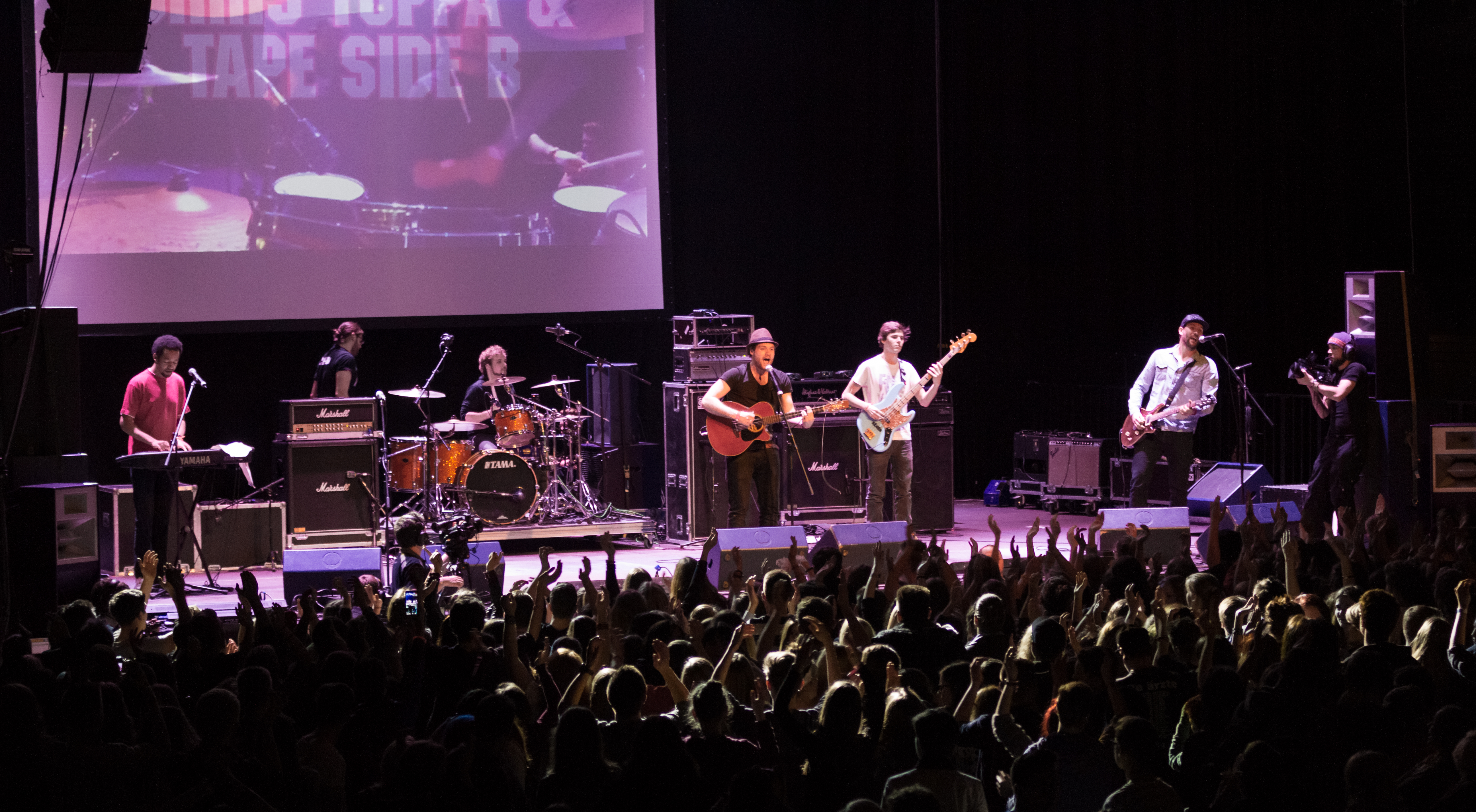 Chris Toppa & Tape Side B - Schüler Rockfestival 2015